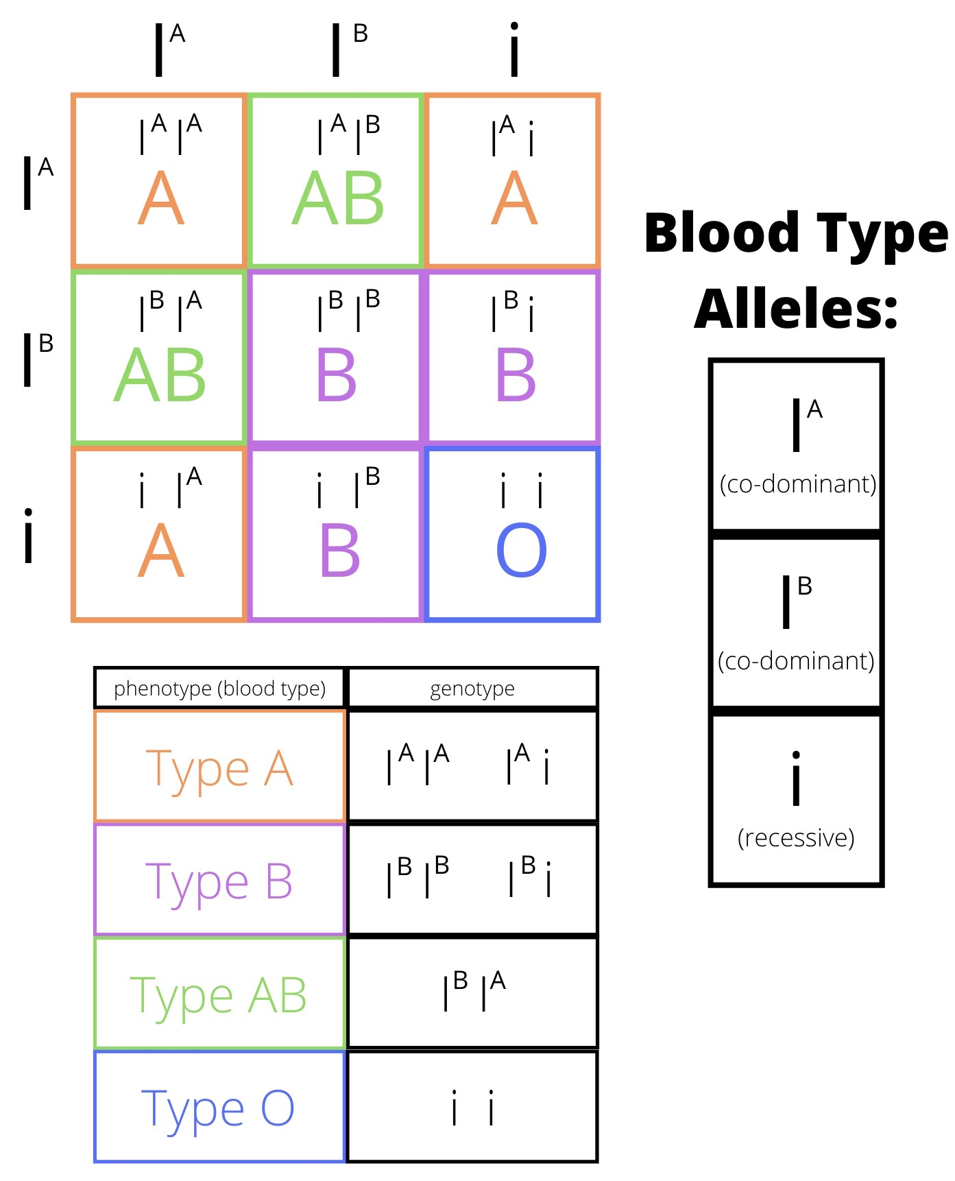 How to determine the blood group based on the blood type alleles.